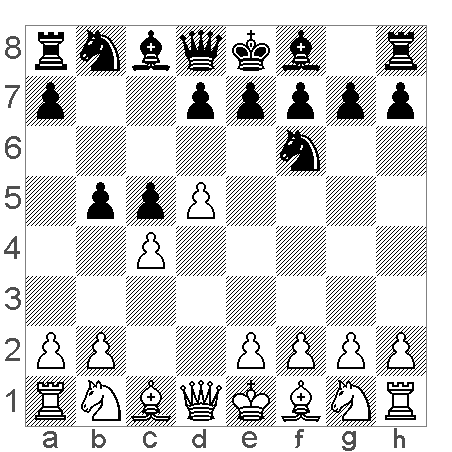 chess diagram Volga gambit Source: CBlight + my processing